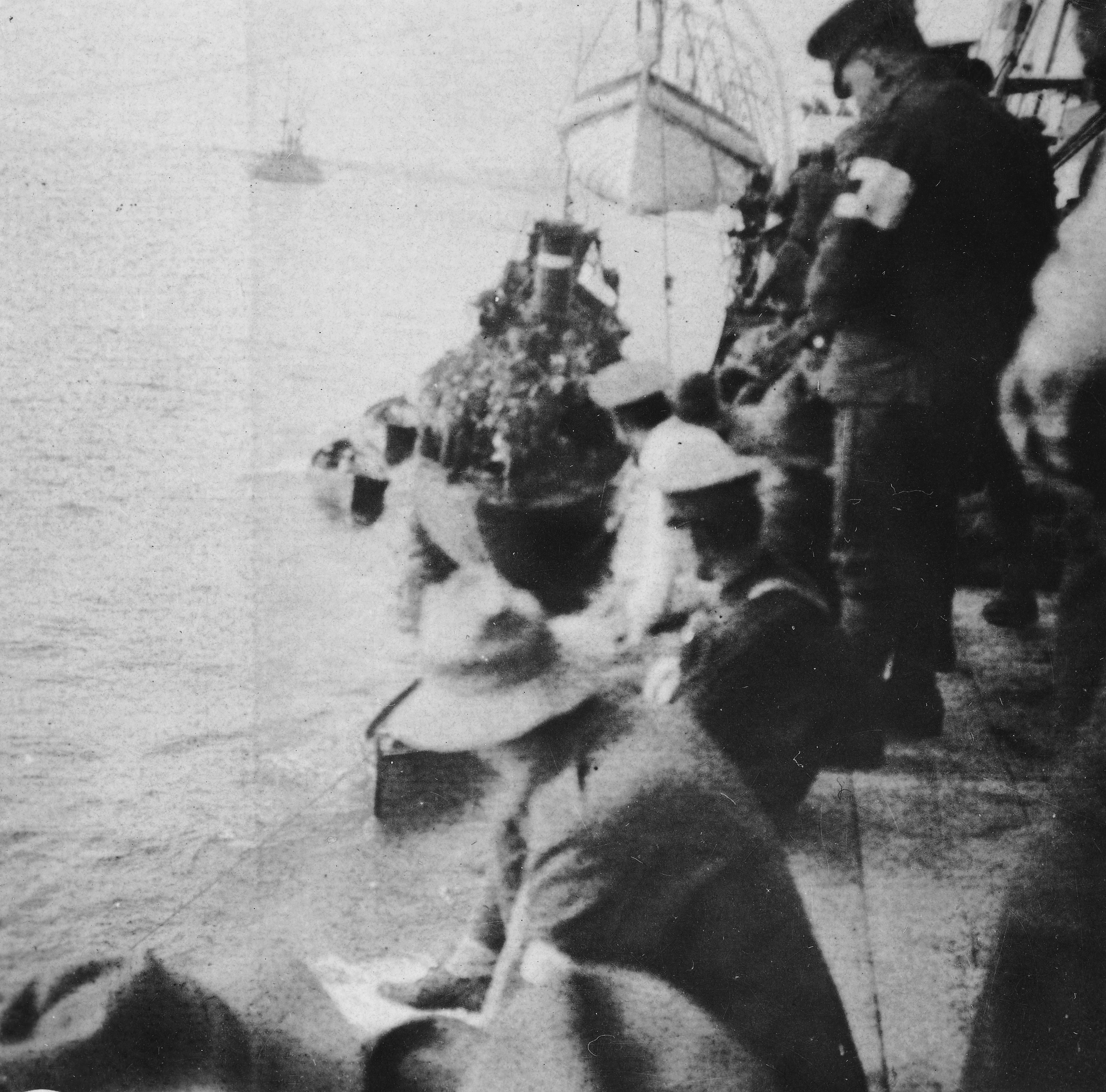 Unidentified photographer Troops preparing to disembark, Gallipoli, Turkey, 1915 Reference Number: PA1-o-573-23-1 Silver gelatin print Photographic Archive, Alexander Turnbull Library from the